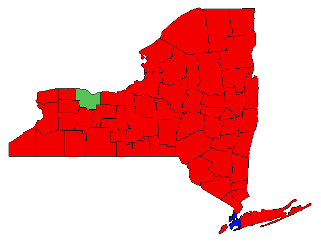 I am the author of this map and not reserve any rights.